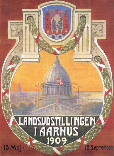 Poster of the Danish National Exhibit of 1909